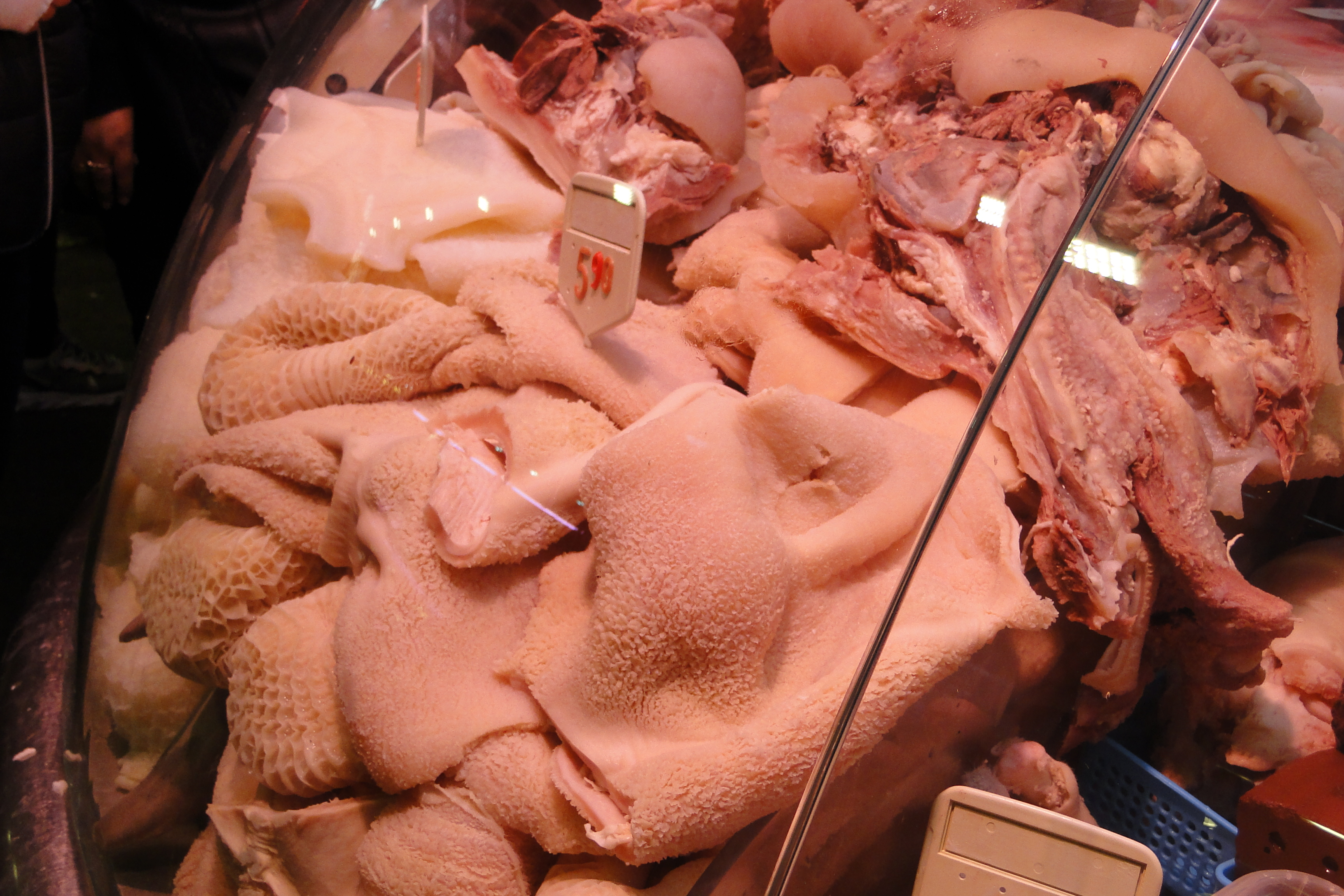 Tripe in a stand of the market of La Boqueria (Barcelona, Spain)